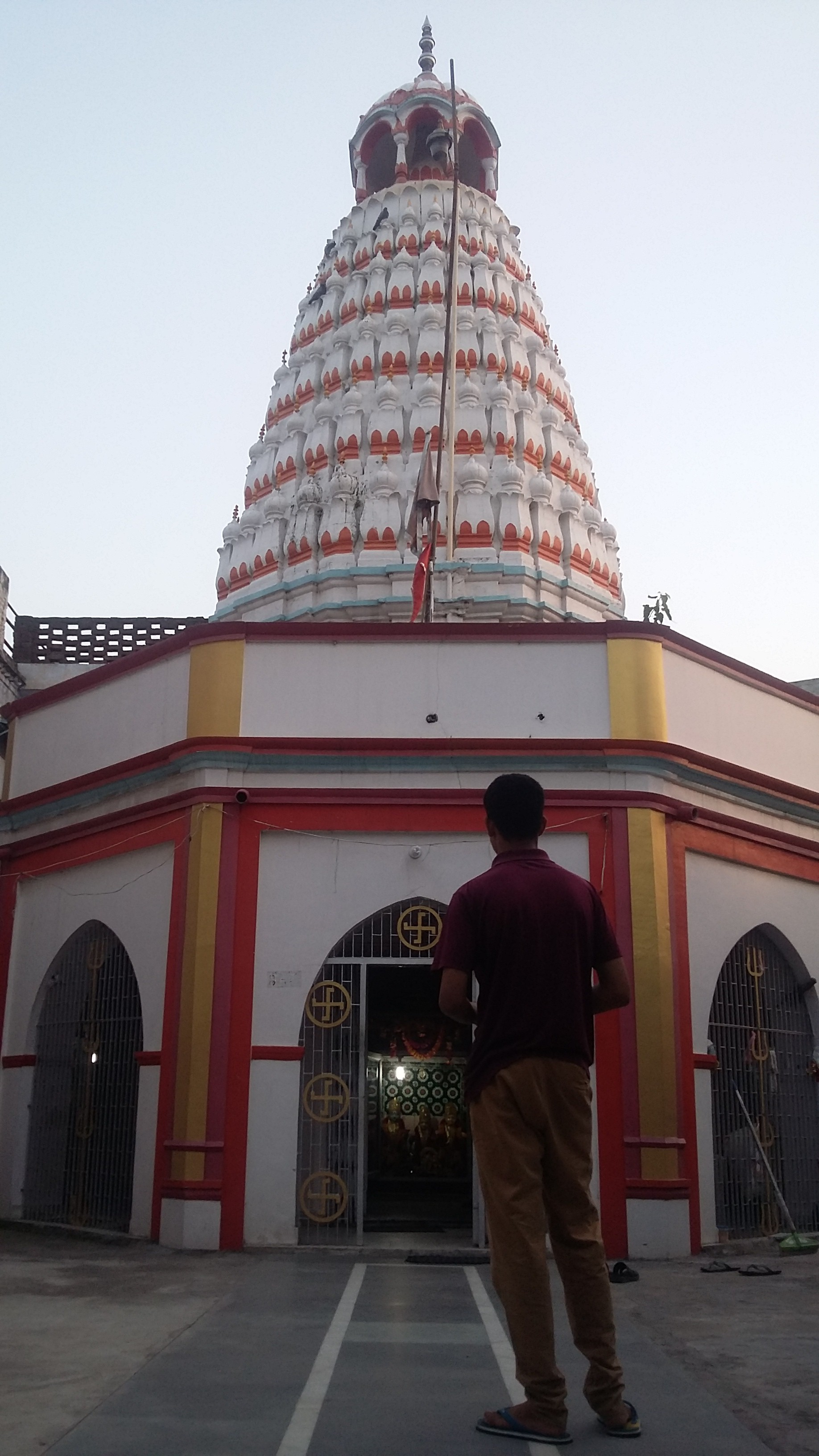 this is ancient temple of lord Ramchandra in city khanna india